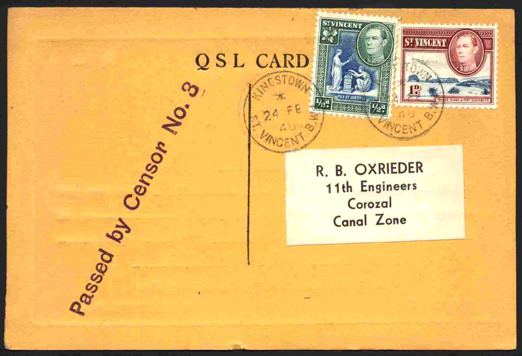 1940 censored "QSL card" (used by amateur radio [ham] operators) to confirm reception of broadcast signals, from St Vincent to the Canal Zone mailed 24 February 1940 franked with GV halfpenny and 1d postage stamps.